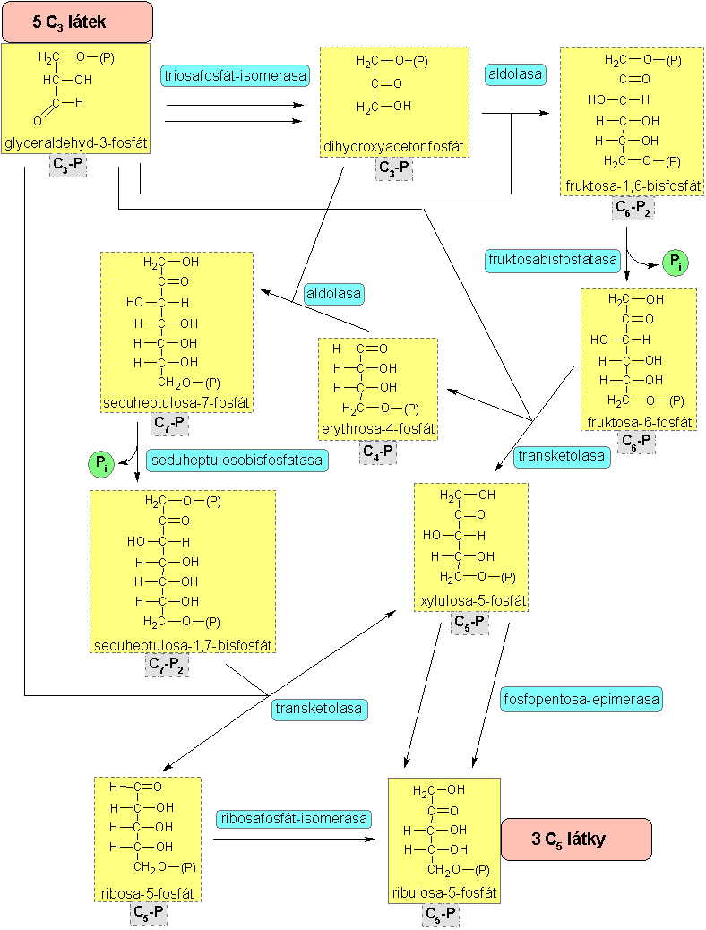 Calvin cycle - Rbu-5-P regeneration